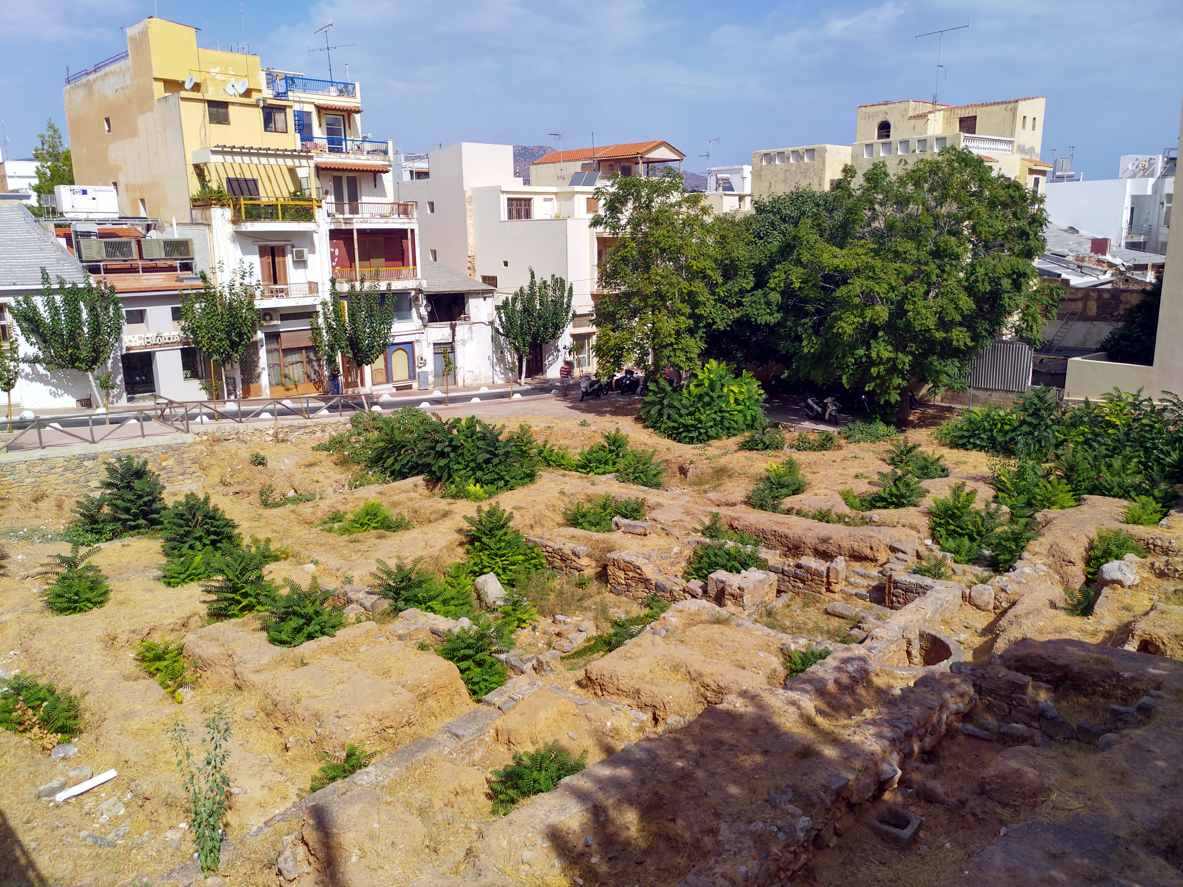 Archaeological area of ancient Lato pros Kamara in Agios Nikolaos, Crete, Greece.